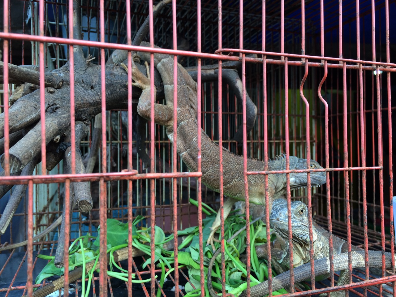 Jatinegara Market